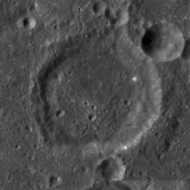 Almanon crater, on the moon. Lunar Reconnaissance Orbiter Wide Angle Camera (WAC) mosaic.